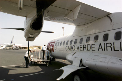 ATR-42 of the TACV fleet in Sal Island airport. November 2000, Photograph by Henryk Kotowski